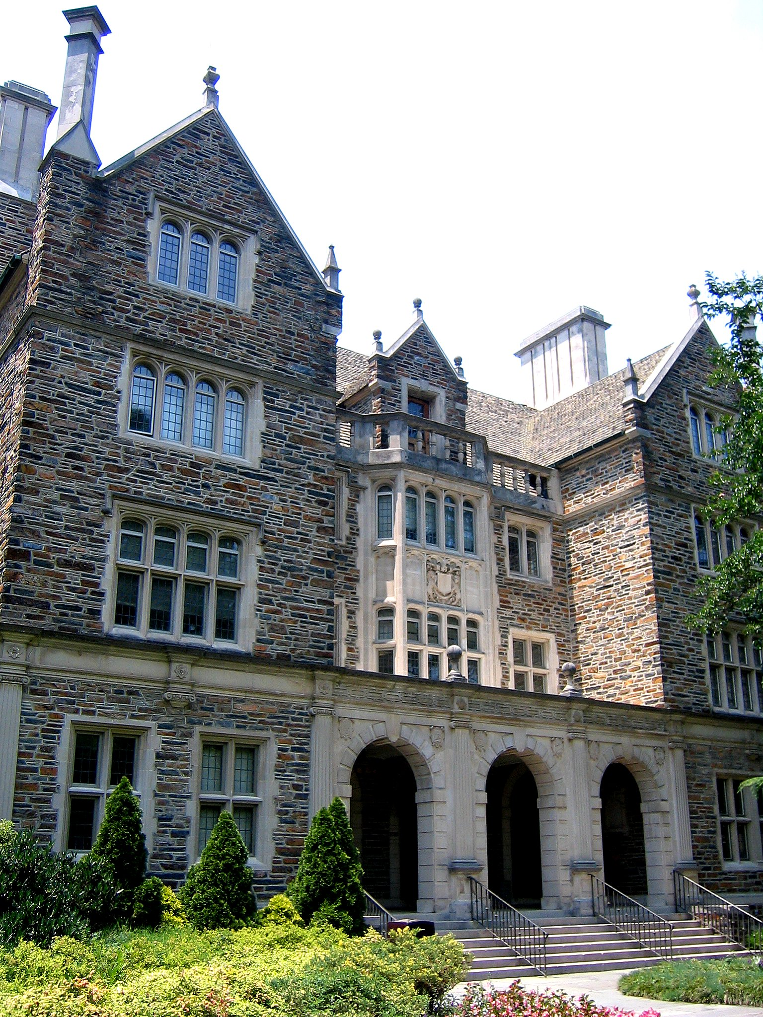 Old Chem Building at Duke University